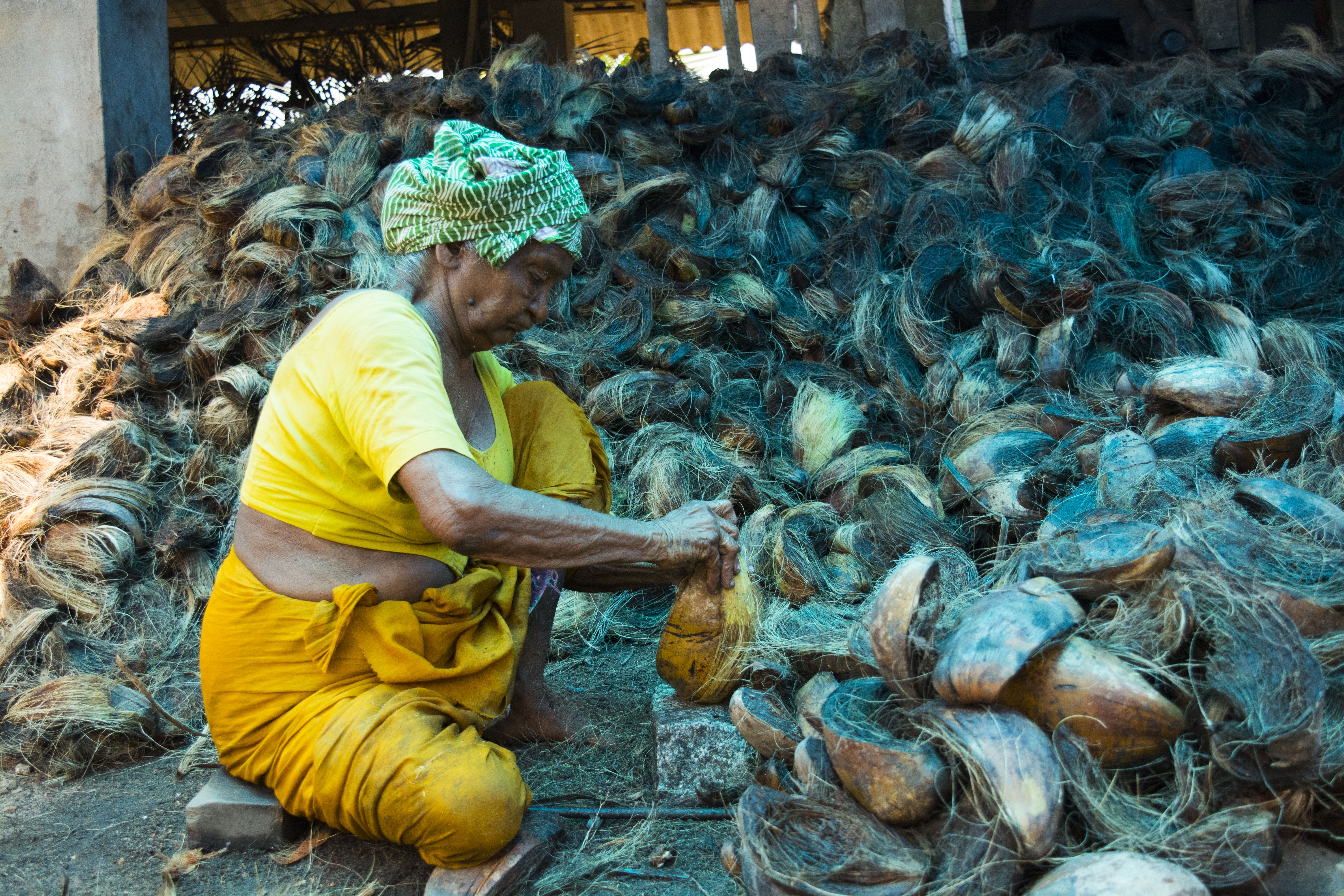 A Kerala woman engaged in manual process of removing epicarp of coconut retted husk for defibering